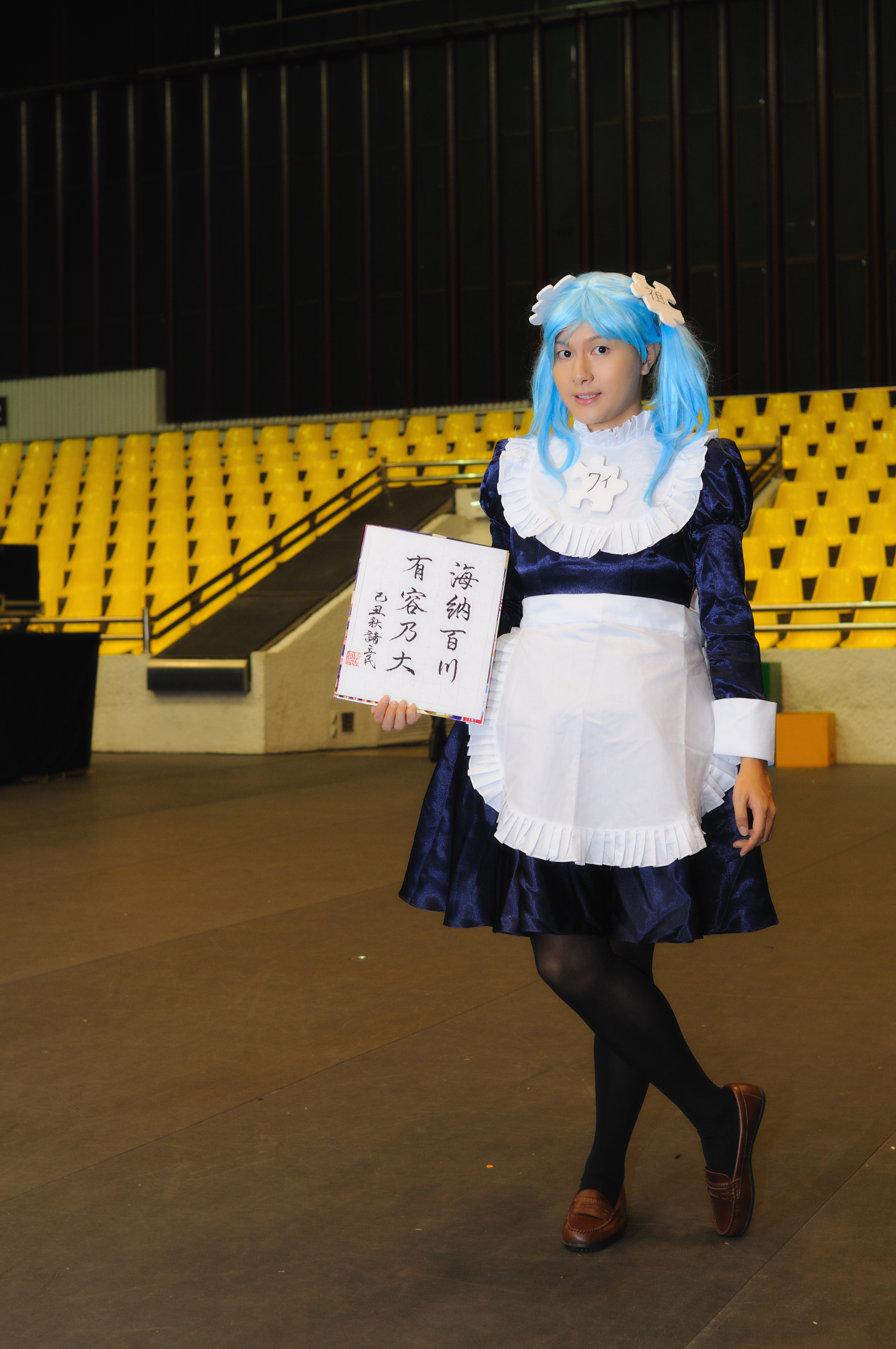 A cosplayer SoHome Jacaranda dressed as Wikipedia's anime mascot Wikipe-tan at the fifth Macau Comics Festival in Macau. Character designer: Kasuga Cosplayer: SoHome Jacaranda / SoHome Jacaranda Lilau Photography: Ken KONOE Photo holder: Wikimedia Hong Kong